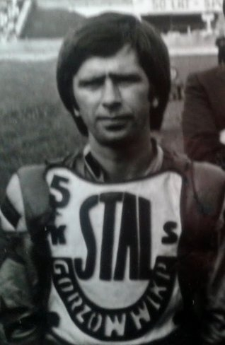 Edward Jancarz - polish speedway rider.